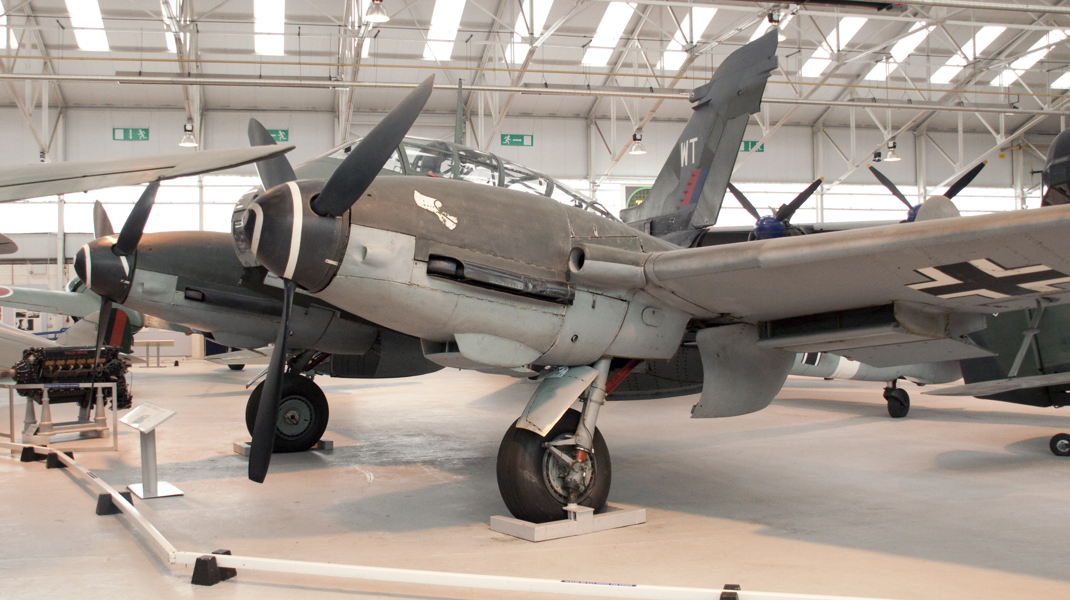 The Messerschmitt Me 410 Hornisse ("Hornet") was a Luftwaffe heavy fighter and Schnellbomber of World War II